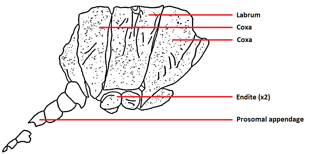 The holotype fossil of eurypterid Necrogammarus salweyi labelled as per Selden (1986).